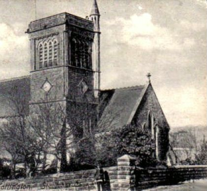 Postcard showing drawing of St John The Evangelist Church in Hollington near Hastings, Sussex, England, designed by Edward Alexander Wyon in 1865.